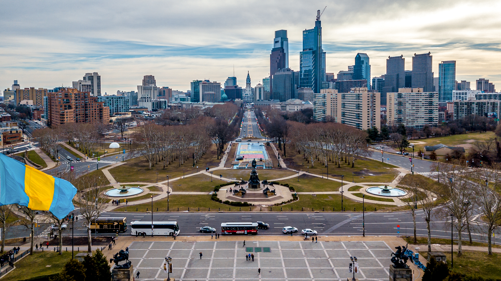 Looking down from the Philadelphia Museum of Art, the Benjamin Franklin Parkway runs vertically through the skyline to the Washington Monument by Rudolf Siemering.